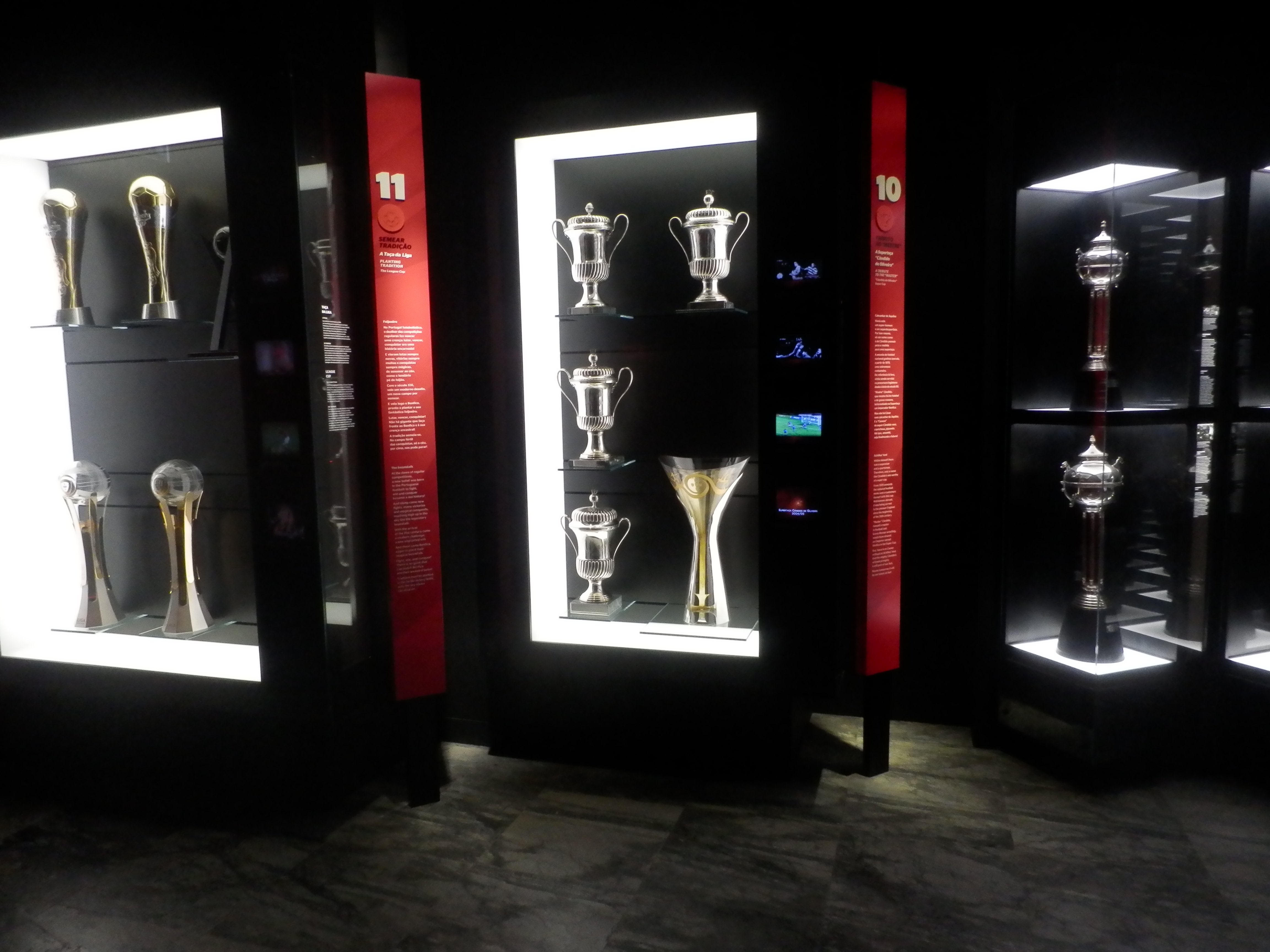 The club five Supertaça Cândido de Oliveira, the more recent is 2014 which is a new trophy